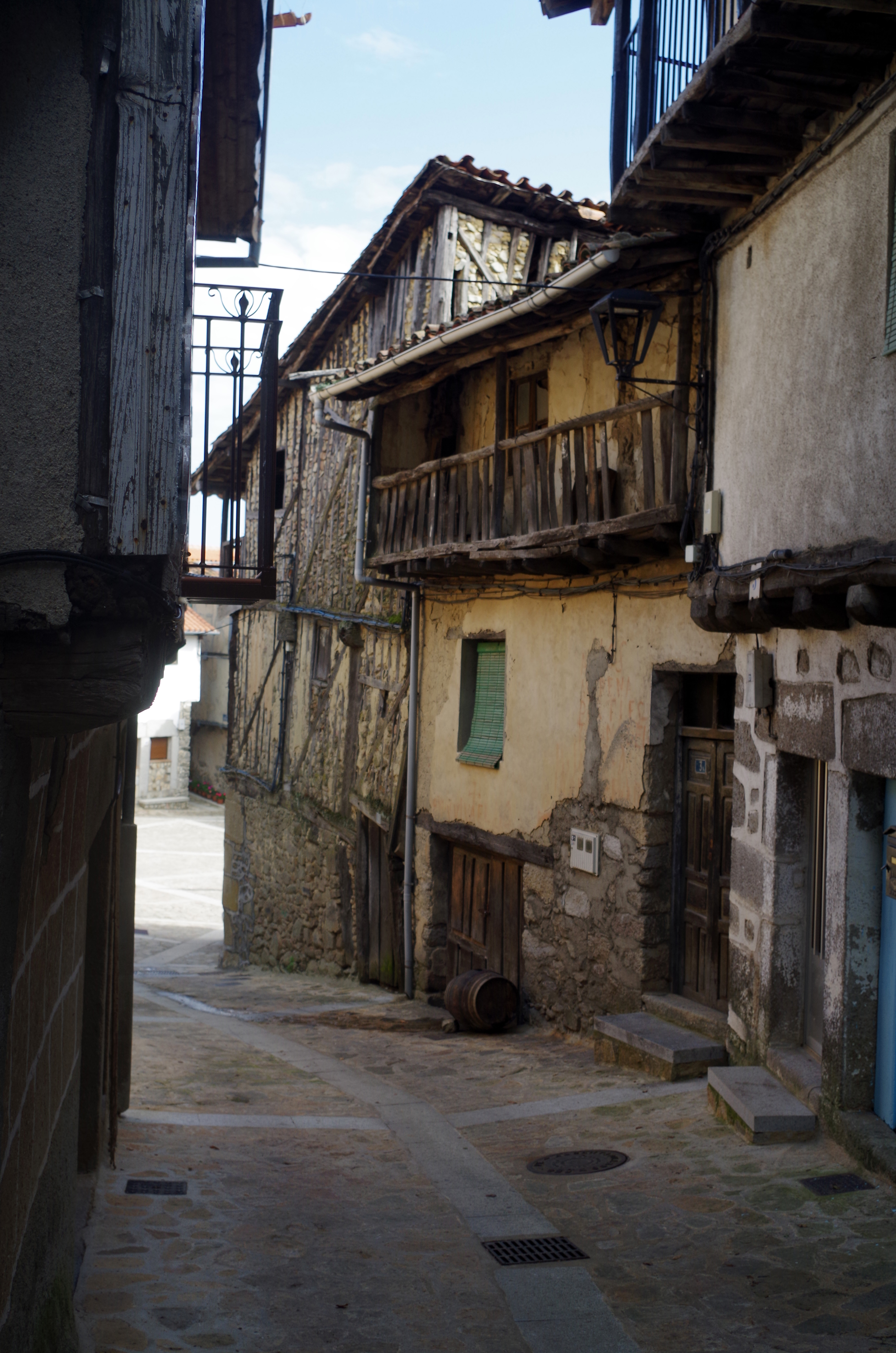 Monforte de la Sierra (Salamanca, Spain)